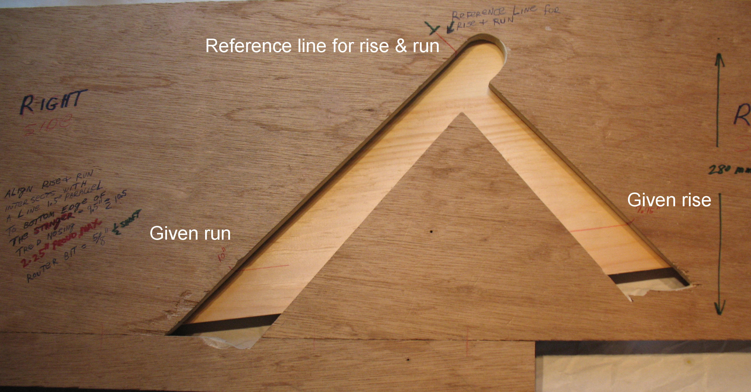 Photographer: Johnalden This photo is a revision of Staircase jig JAC jpg. built by Johnalden